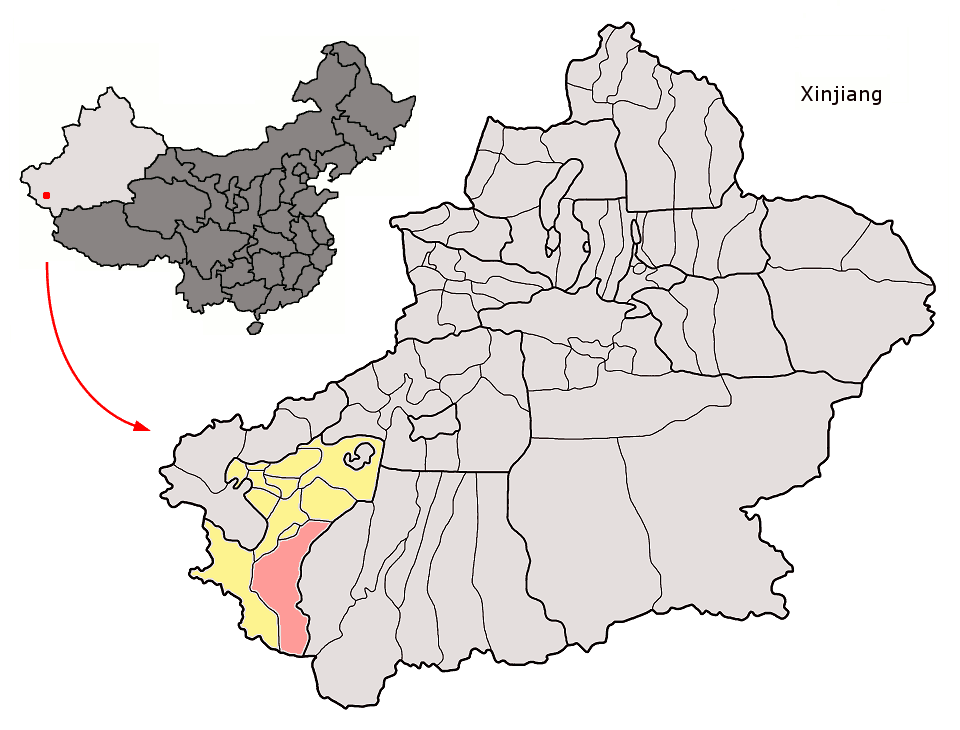 Location of Kargilik County (pink) and Kashgar Prefecture (yellow) within Xinjiang autonomous region of China Map drawn in september 2007 using various sources, mainly : Xinjiang Uygur autonomous region administrative regions GIS data: 1:1M, County level, 1990 Xinjiang Counties map from